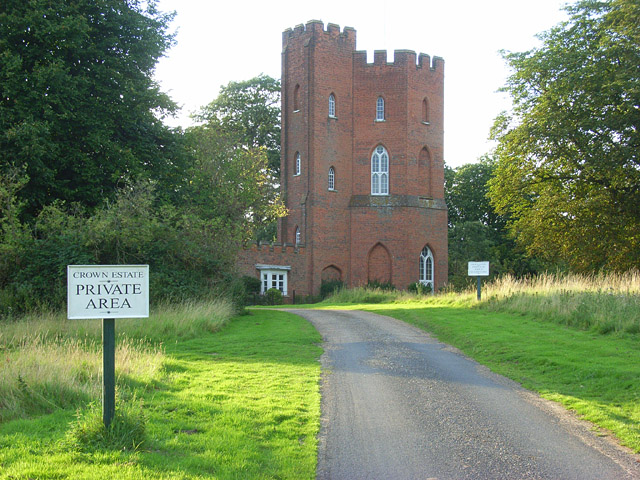 Cranbourne Tower, Windsor Great Park. This private residence is the remaining part of Charles II's Cranbourne Lodge.